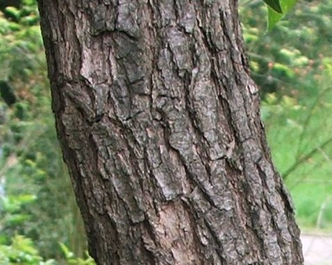 bark of Cinnamomum camphora